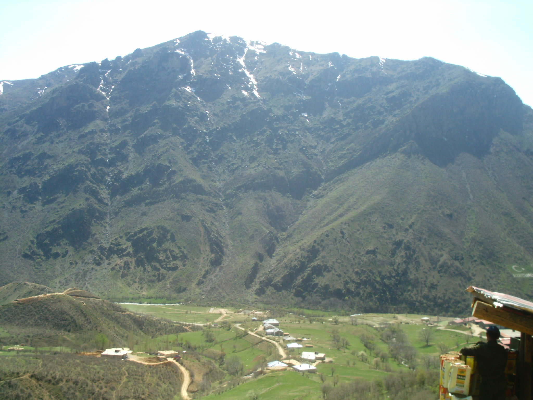 A view of Şemdinli city, Hakkari